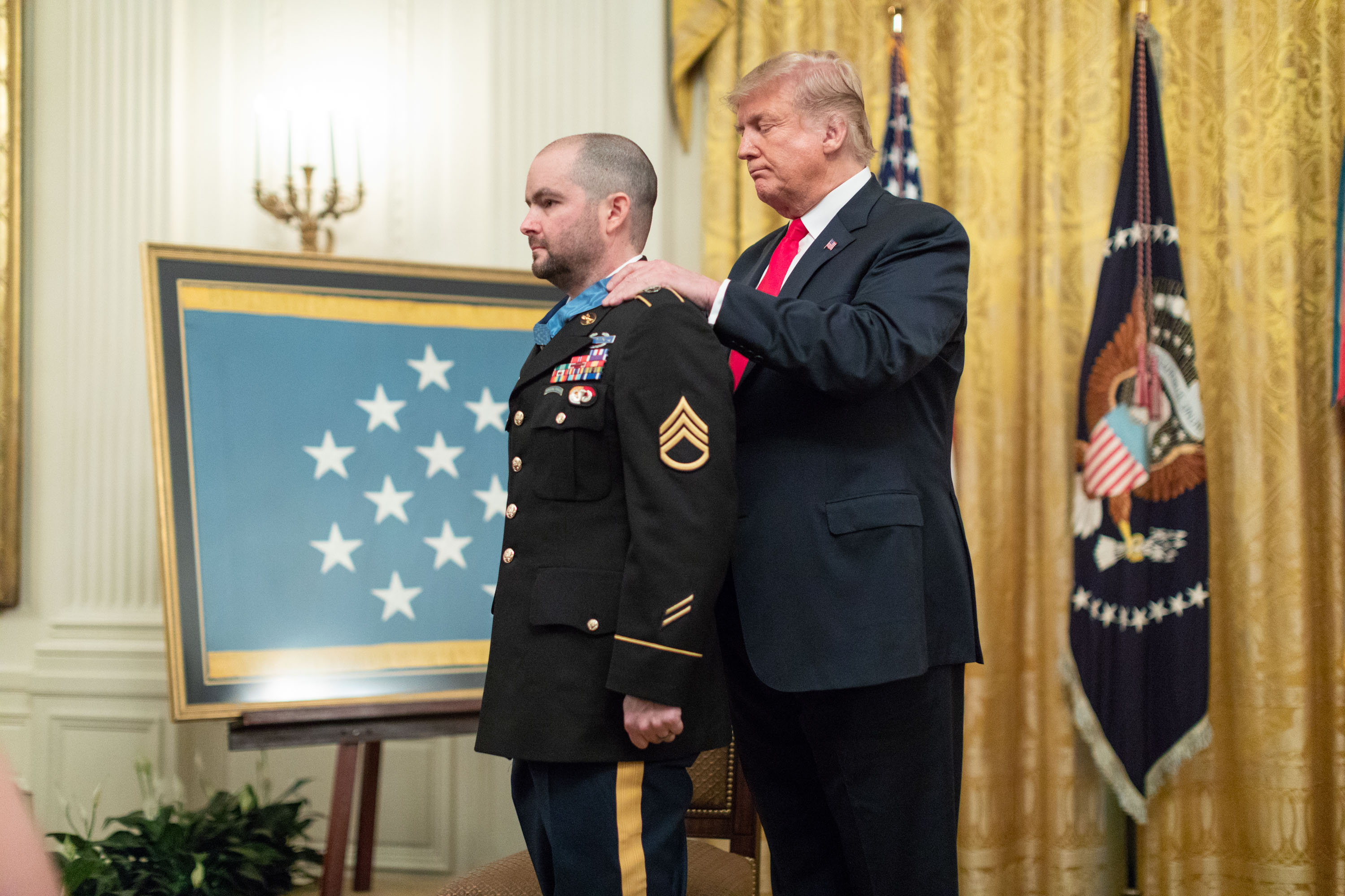 President Donald J. Trump presents the Medal of Honor to retired U.S. Army Staff Sgt. Ronald J. Shurer II Monday, Oct. 1, 2018, in the East Room of the White House. (Official White House Photo by Shealah Craighead)